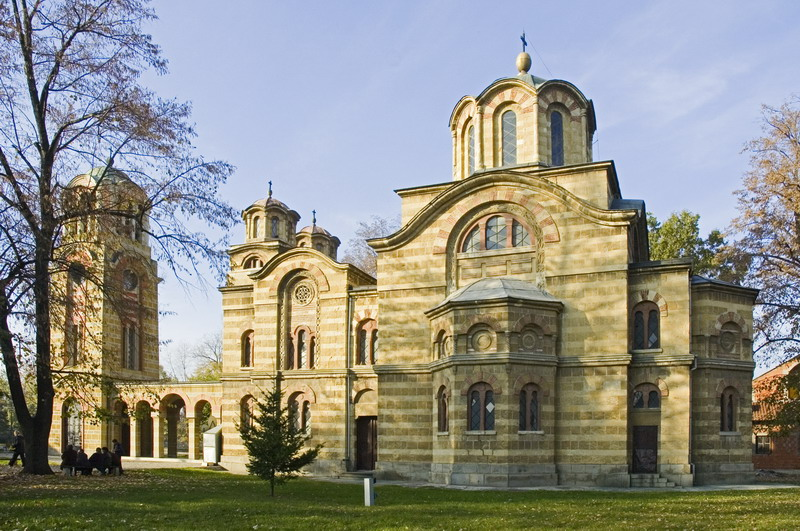 Saint Petka Church